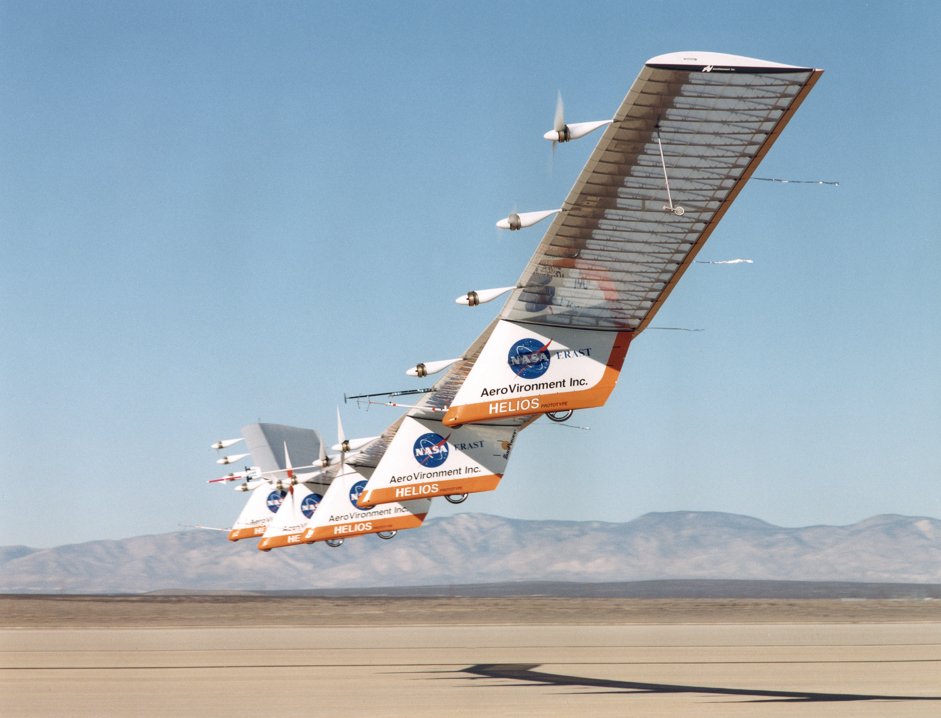 The Helios Prototype is an enlarged version of the Centurion flying wing, which flew a series of test flights at Dryden in late 1998. The craft has a wingspan of 247 feet, 41 feet greater than the Centurion, 2 1/2 times that of its solar-powered Pathfinder flying wing and longer than either the Boeing 747 jetliner or Lockheed C-5 transport aircraft. It is one of several remotely-piloted aircraft-also known as uninhabited aerial vehicles or UAV's-being developed as technology demonstrators by several small airframe manufacturers under NASA's Environmental Research Aircraft and Sensor Technology (ERAST) project. Developed by AeroVironment, Inc., of Monrovia, Calif., the unique craft is intended to demonstrate two key missions: the ability to reach and sustain horizontal flight at 100,000 feet altitude on a single-day flight, and to maintain flight above 50,000 feet altitude for at least four days, both on electrical power derived from non-polluting solar energy. During later flights, AeroVironment's flight test team will evaluate new motor-control software which may allow the pitch of the aircraft(the nose-up or nose-down attitude in relation to the horizon) to be controlled entirely by the motors. If successful, production versions of the Helios could eliminate the elevators on the wing's trailing edge now used for pitch control, saving weight and increasing the area of the wing available for installation of solar cells.